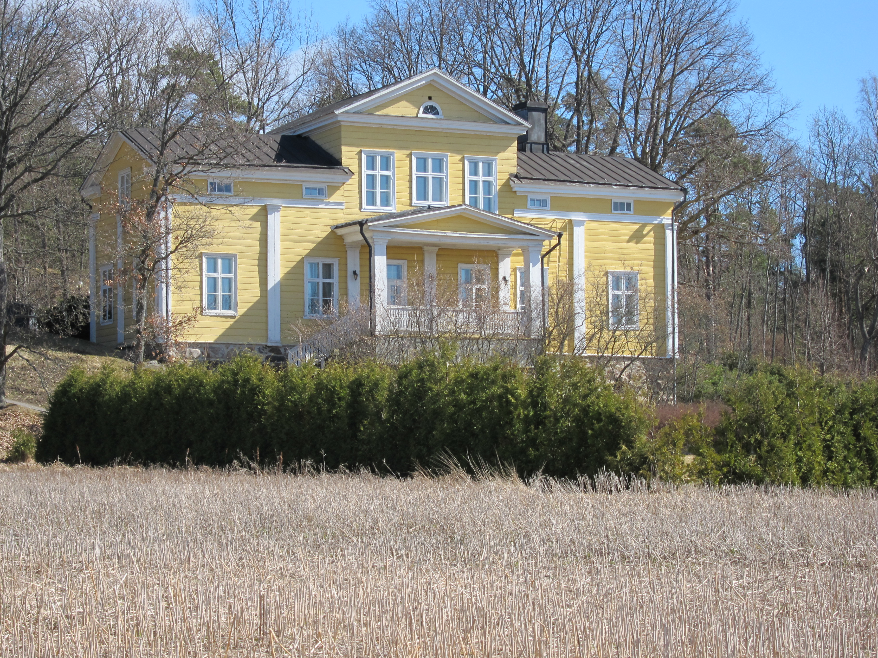 Brinkhall Manor in Raisio, Finland. The history of Huhko Manor dates back to the 16th century. The oldest parts of the present main building date from the 18th century. The Empire-style appearance is from 1837–1842.